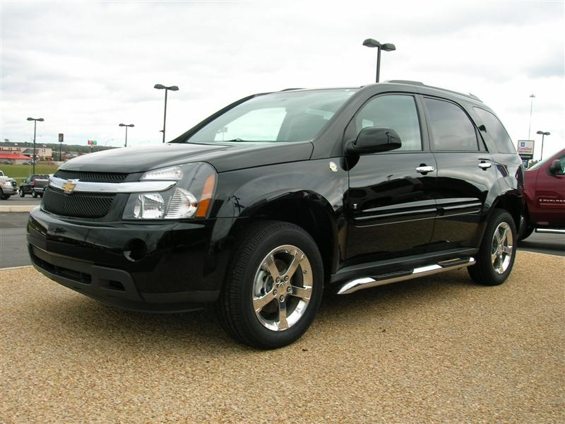 2008 Equinox LTZ picture taken by me outside the Chevrolet Dealership